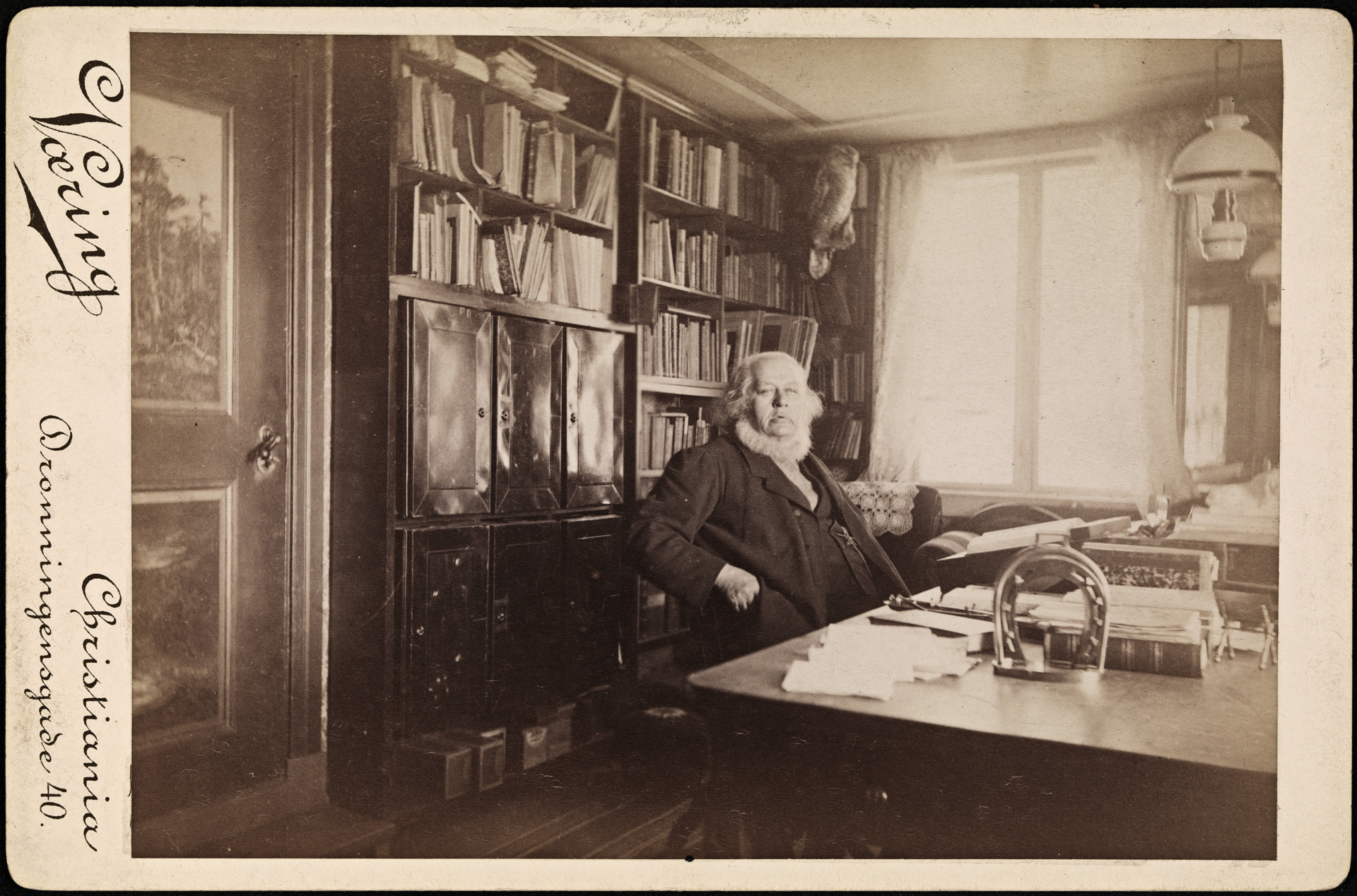 Tittel / Title: Peter Christen Asbjørnsen i sitt arbeidsværelse i Rosenborggata Motiv / Motif: Kabinettkort. Dato / Date: ukjent / unknown Fotograf / Photographer: O. Væring Sted / Place: Oslo, Rosenborggata 2 Eier / Owner Institution: Nasjonalbiblioteket / National Library of Norway Lenke / Link: Bildesignatur / Image Number: blds_03636